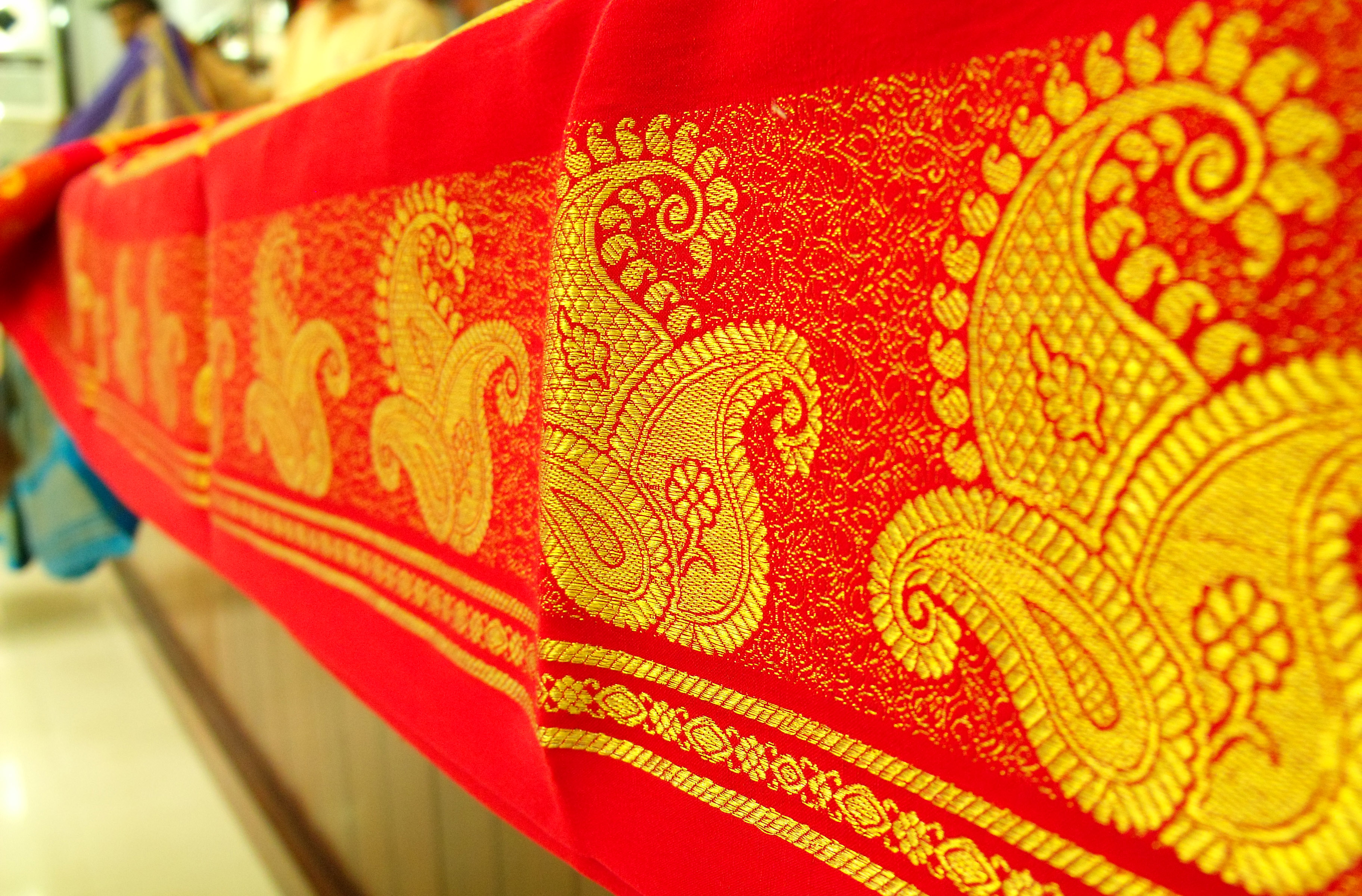 Mysore silk saree's zari made of pure gold thread.